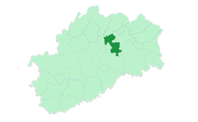 Canton of Saulx